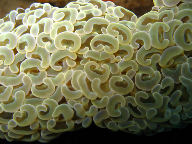 Ancora coral (Euphyllia ancora), Pulau Badas, Indonesia